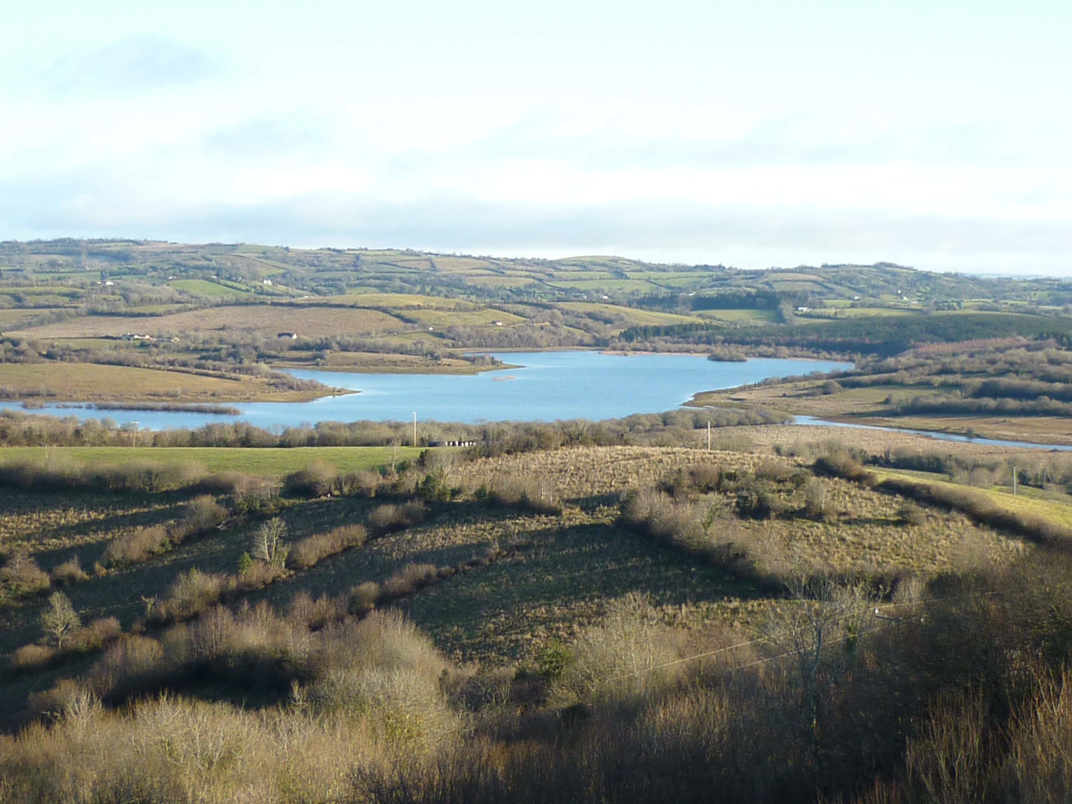 Description =Looking down onto Ross Lough from Toneel North Youngbohemian (talk) 17:30, 3 February 2010 (UTC)